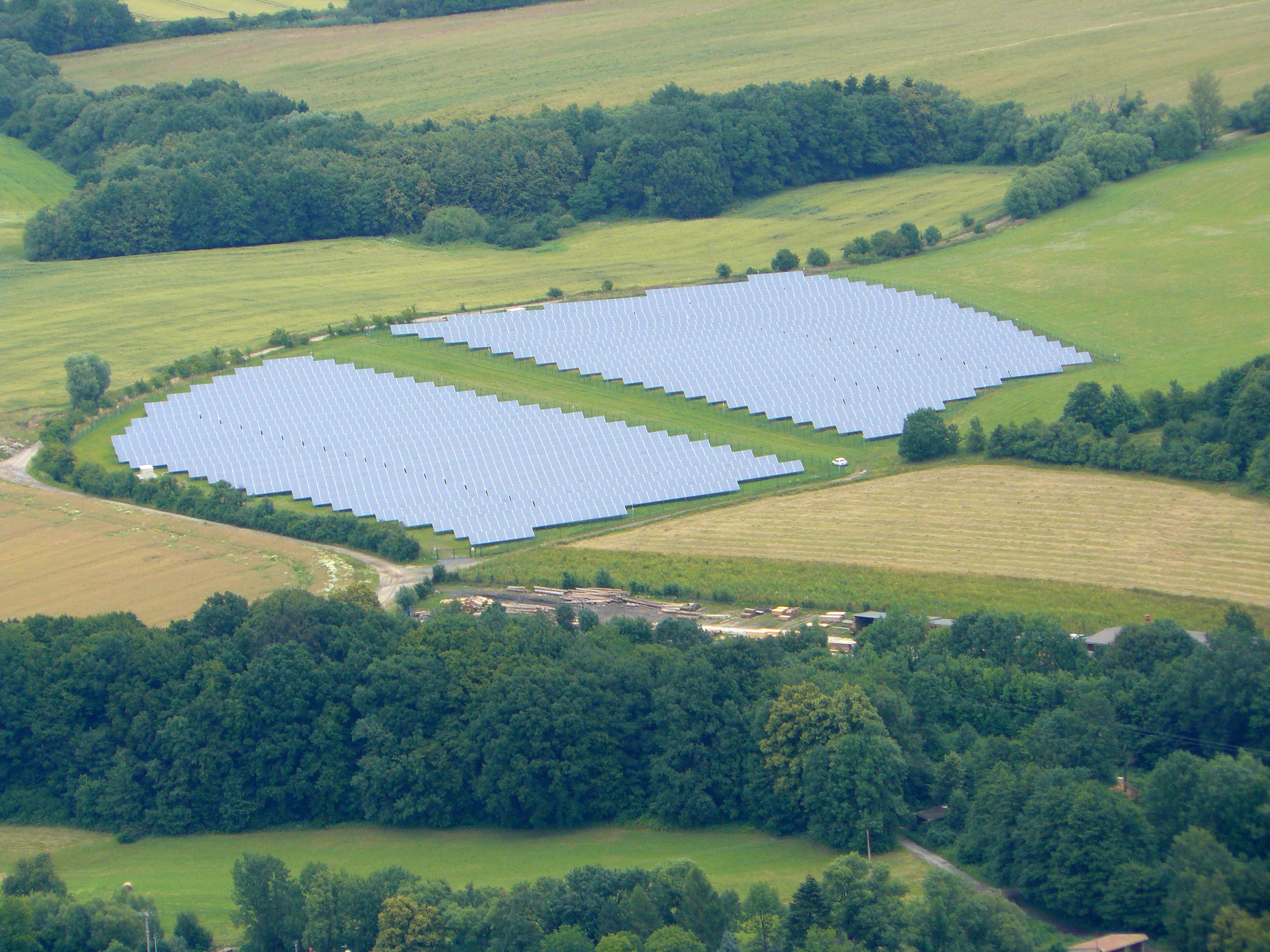 Photovoltaic power station, Bystřice pod Hostýnem, view from Hostýn observation tower